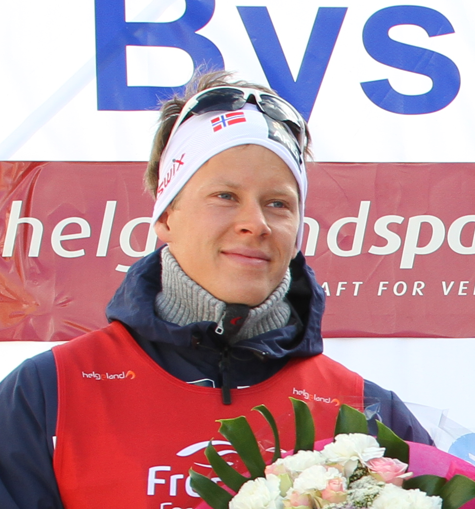 The men's podium ceremony at the exhibition sprint race "Bysprinten" in Mosjøen, Norway. From left to right: Anders Gløersen (second), Eirik Brandsdal (winner), Markus Norum Nilsen (fourth) and Robin Bryntesson (third).